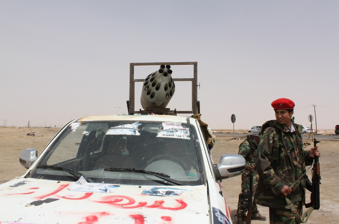 Rebels have taken UB-32 helicopter rocket launchers and welded them to their pick-up trucks. They are powered with car batteries and fired by wiring them to scavenged factory button arrays or doorbells. The UB-32 fires 55-mm S-5 rockets.